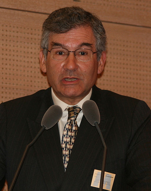 Sir Stephen Waley-Cohen at a meeting commemorating the first anniversary of the death of André Wormser at the Luxembourg Palace, april, 3 2009.